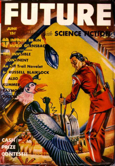 June 1942 cover of the Future combined with Science Fiction magazine, volume 2, issue 5.